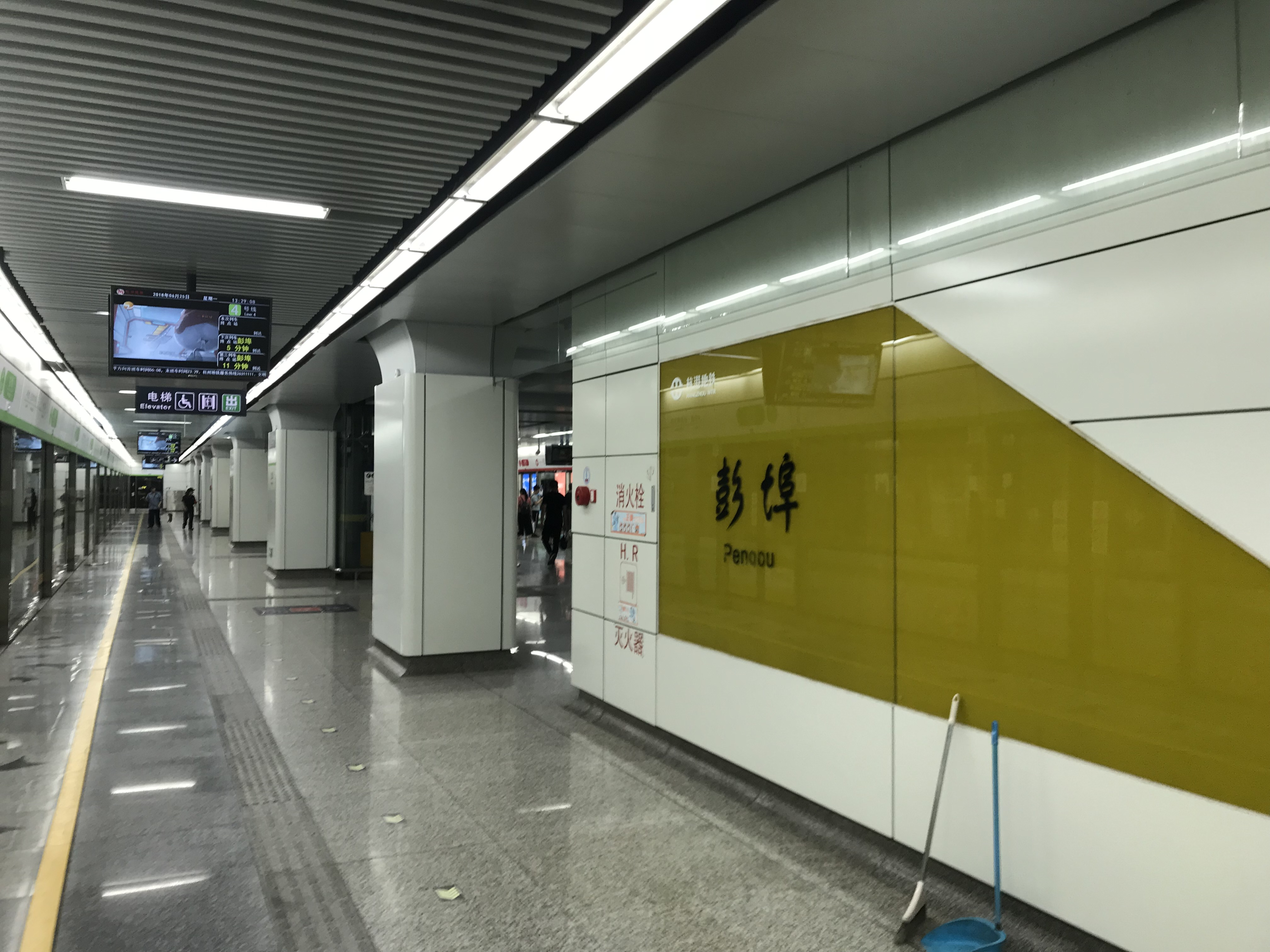 201806 Nameboard of Pengbu Station